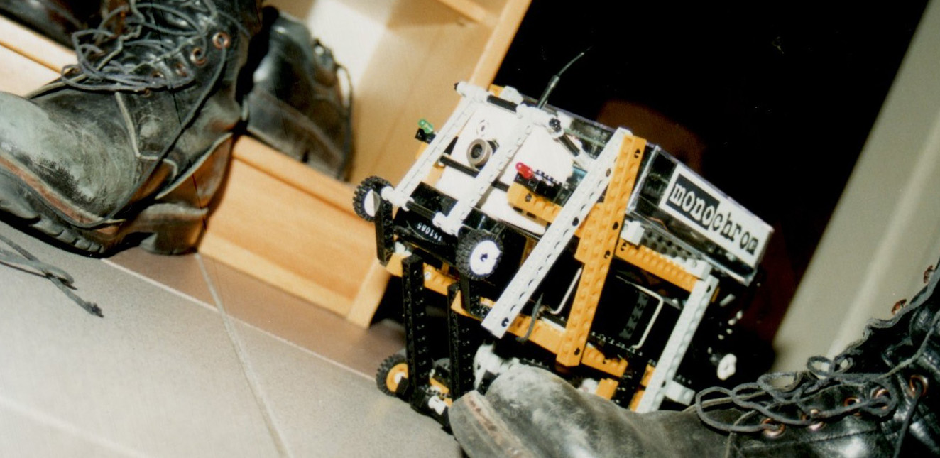 Rare photograph of "Der Exot", monochrom's tele-controlled robot project (1997).